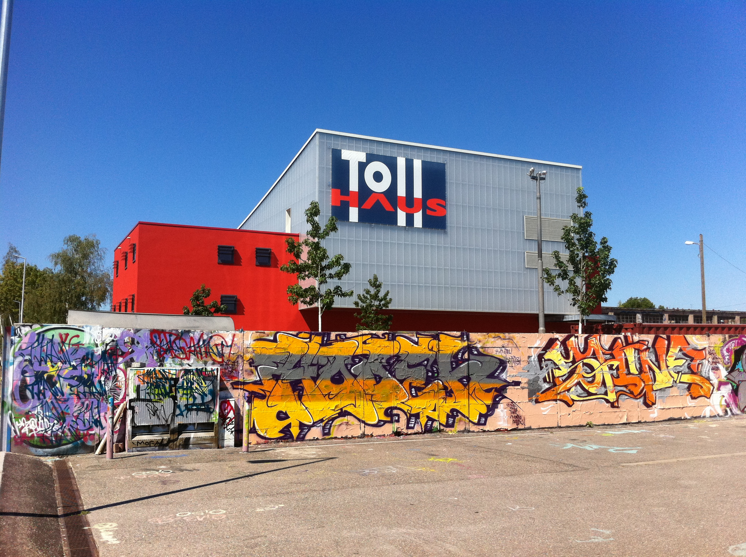 The building is an socio-cultural center for music, theater, film and art in Karlsruhe seen by the east front with the new hall